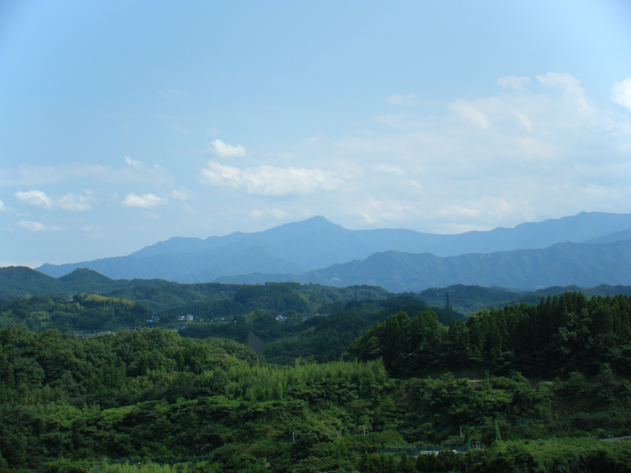 Mount Katamuki (Katamuki-yama) as seen from the NNW.